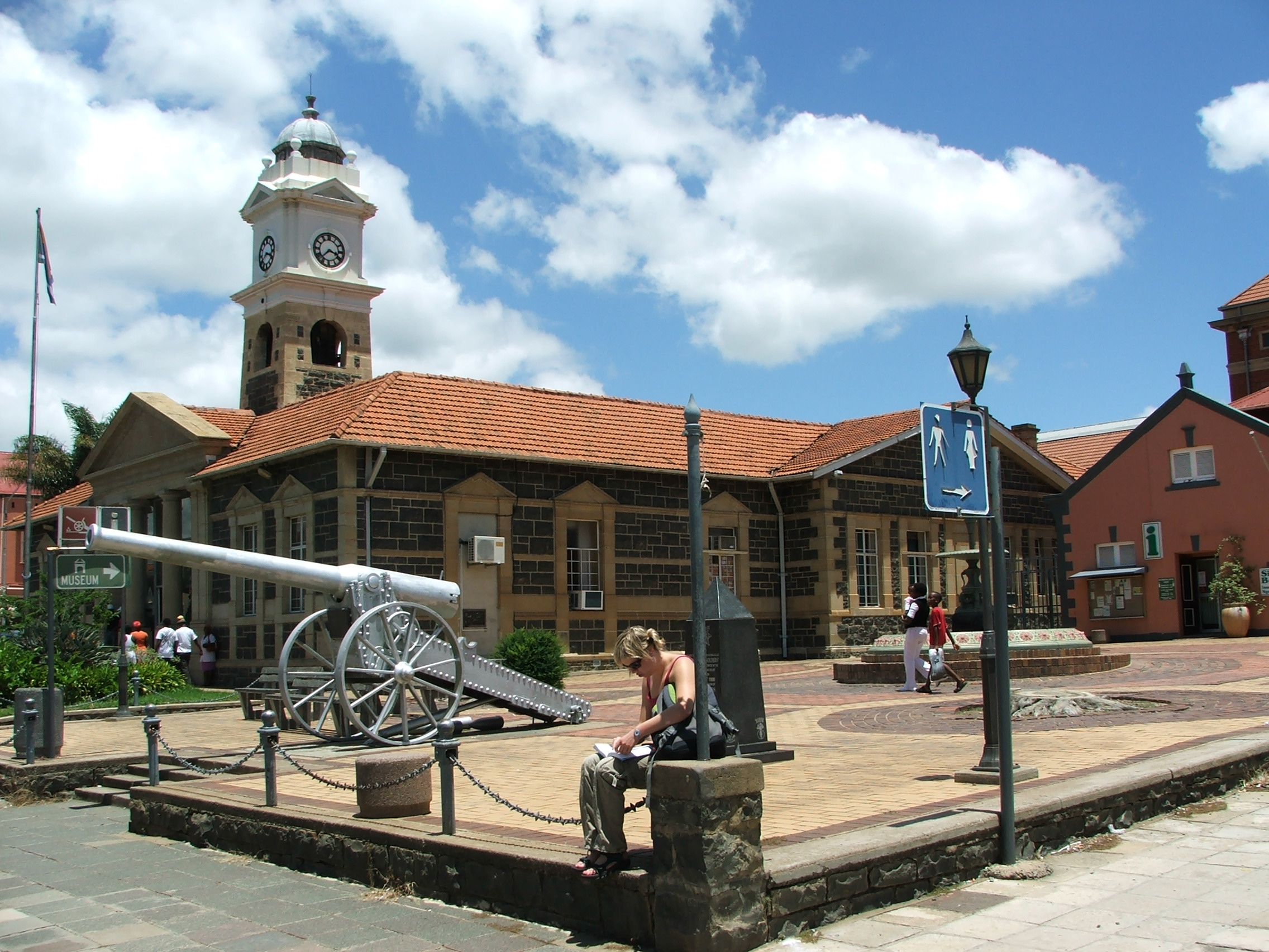 Ladysmith, South Aftica, KwaZulu Natal, city center